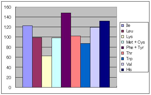 Amino Acid Score of Peanut